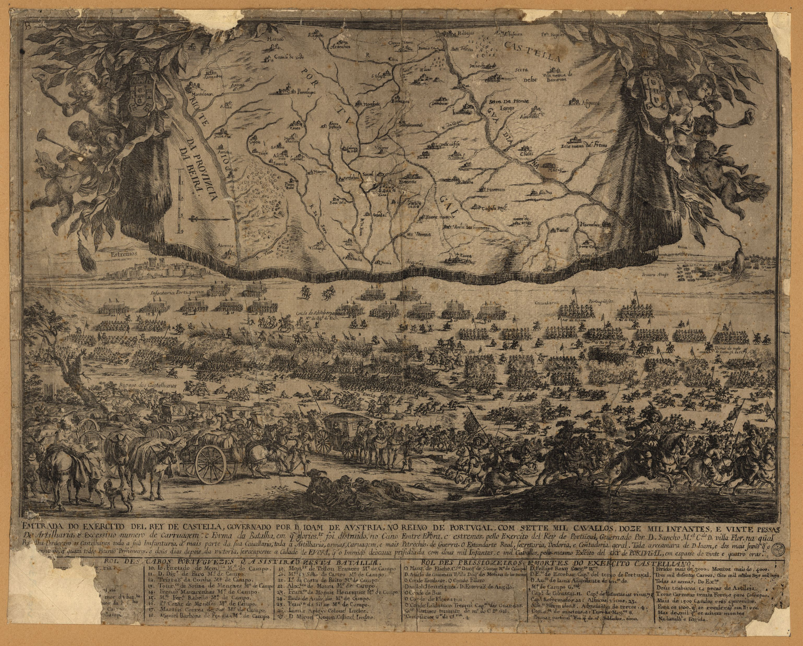 17th century Portuguese engraving of the Battle of Ameixial at Portugal's National Library